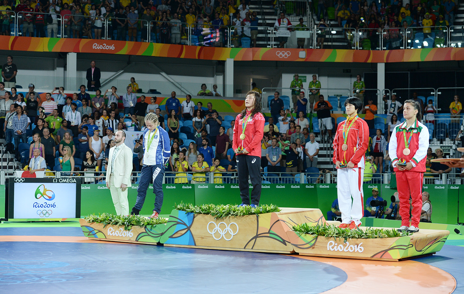 2016 Summer Olympics, Women's Freestyle Wrestling 48 kg awarding ceremony